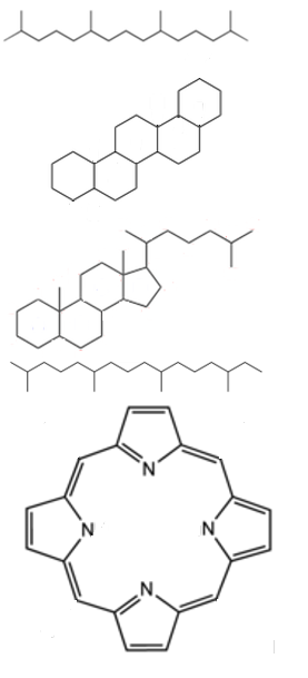 Derivative work of File:Pristane.png by User:Edgar181 (Own work, public domain) File:Steroid-nomenclature.svg by User:NEUROtiker (Own work, public domain) File:Oleanane.svg by User:Edgar181 (Own work, public domain) File:Phytane.svg by User:Edgar181 (Own work, public domain) File:Porphin-18e.png by User:Alsosaid1987 (Own work, cc-by-sa-4.0)